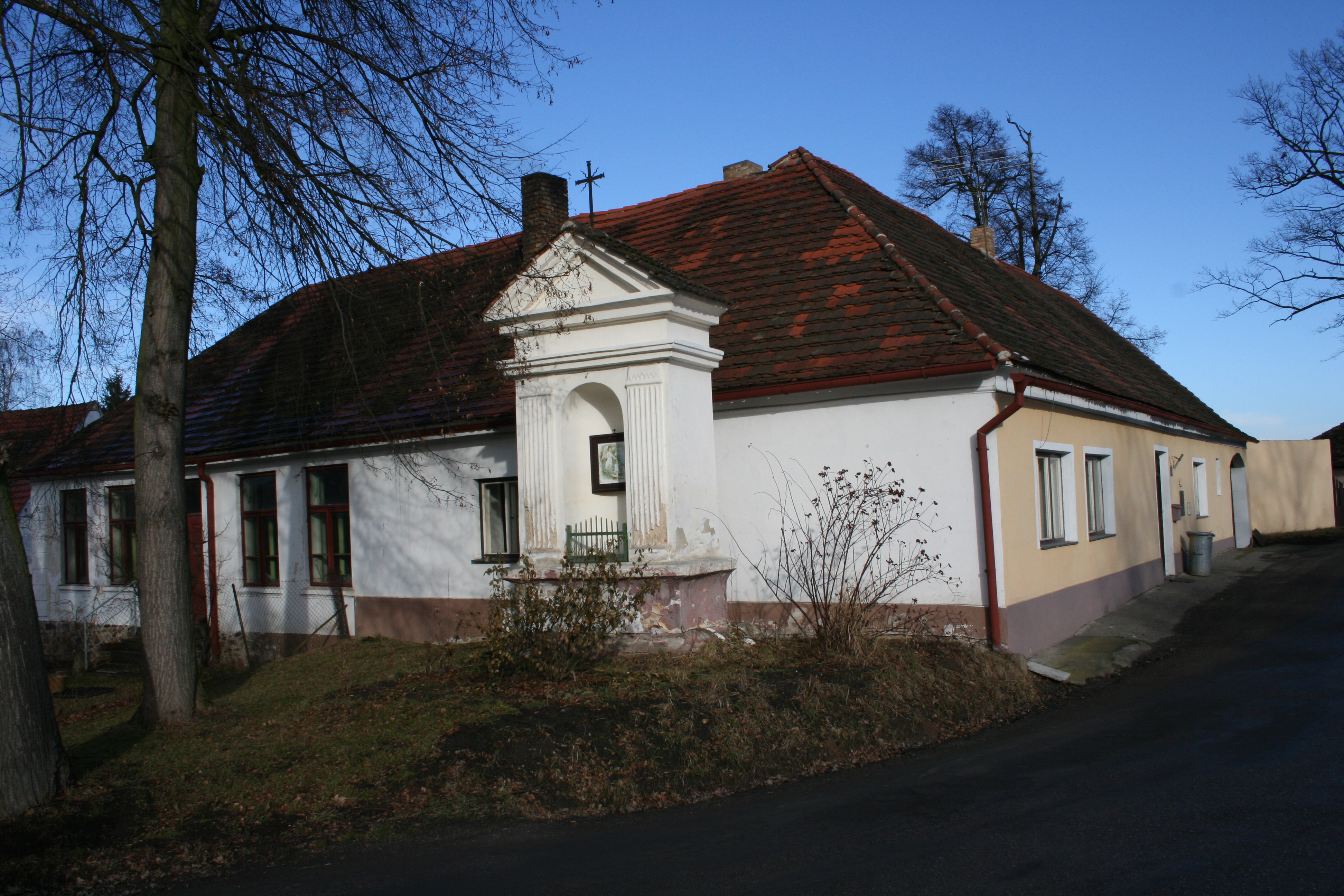 Bzí, part of the Dolní Bukovsko Village in České Budějovice District, Czech Republic. Chapel.